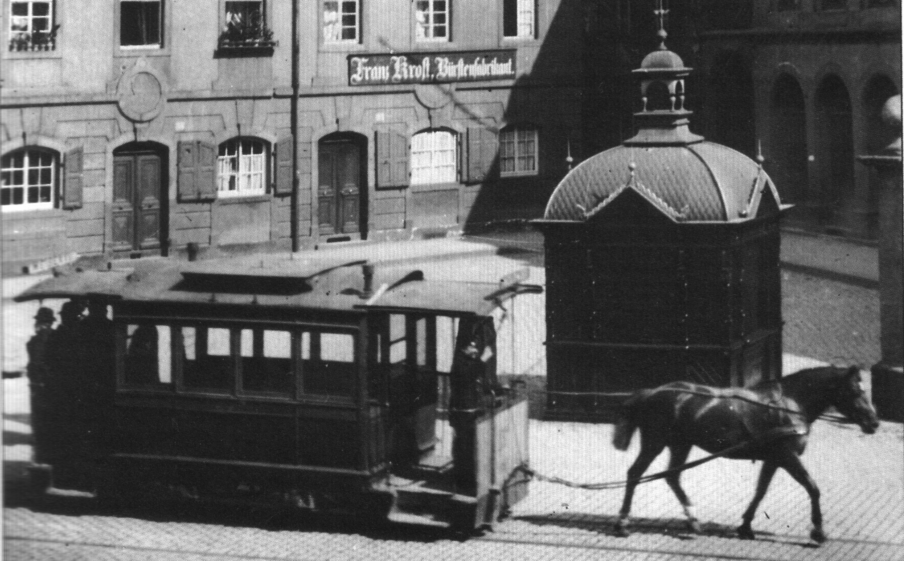 Horse-streetcar in Mainz on Leichhof, behind Cathedral